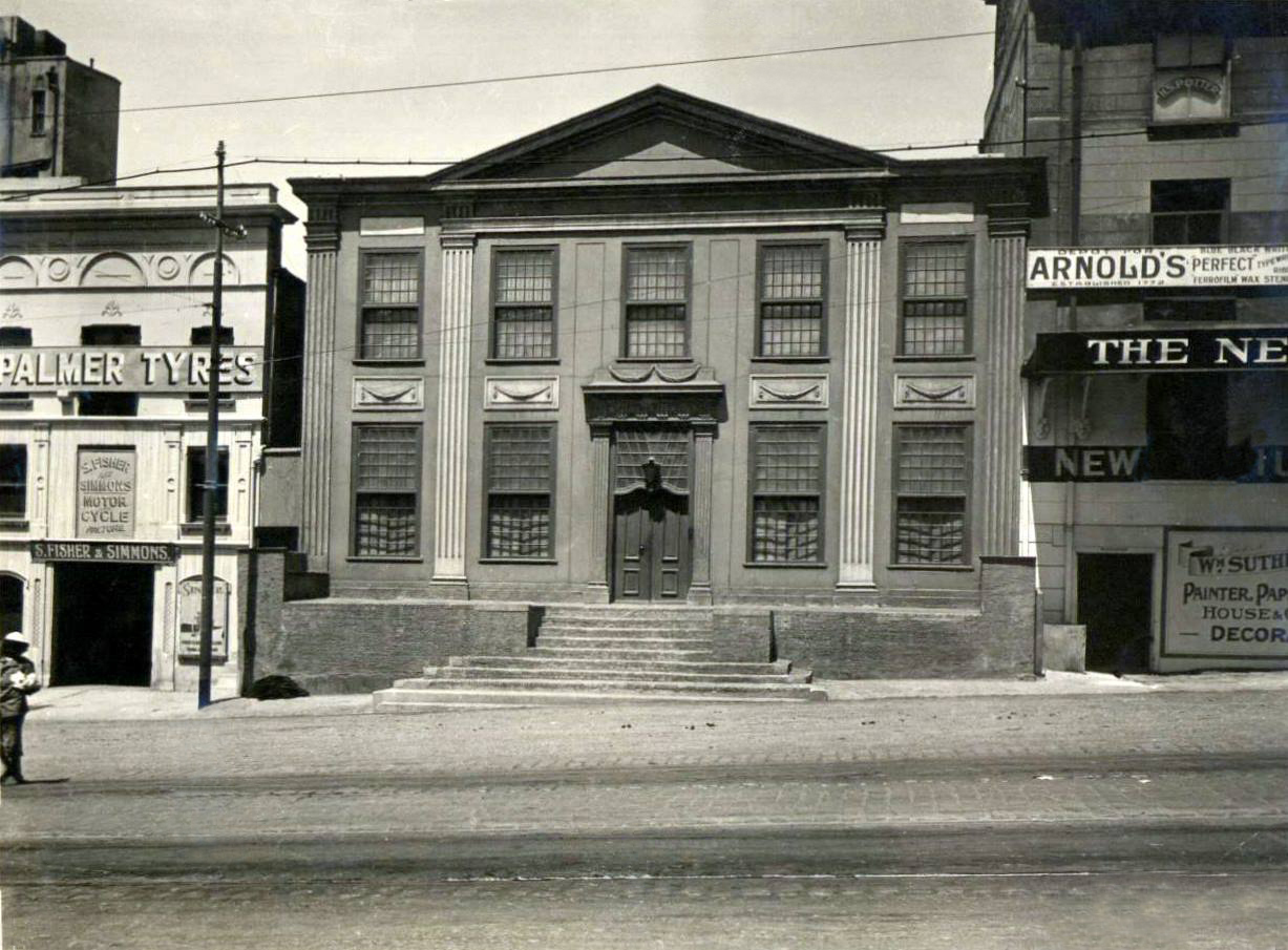 The pediment of the Koopmans-de Wet House in Strand Street, Cape Town contains Neoclassical motifs like fluted pilasters, festooned panels and triglyphs.